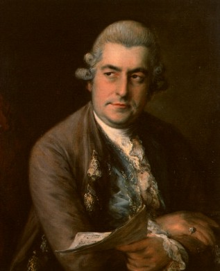 Portrait of Johann Christian Bach (1735-1782)